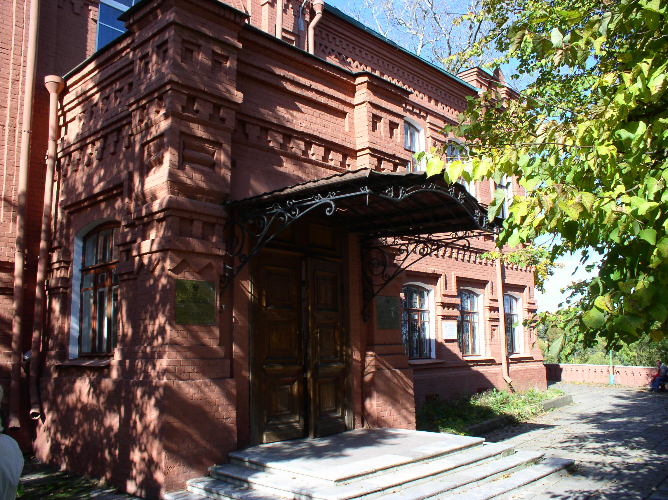 Toys museum in Sergiev Posad, Russia.